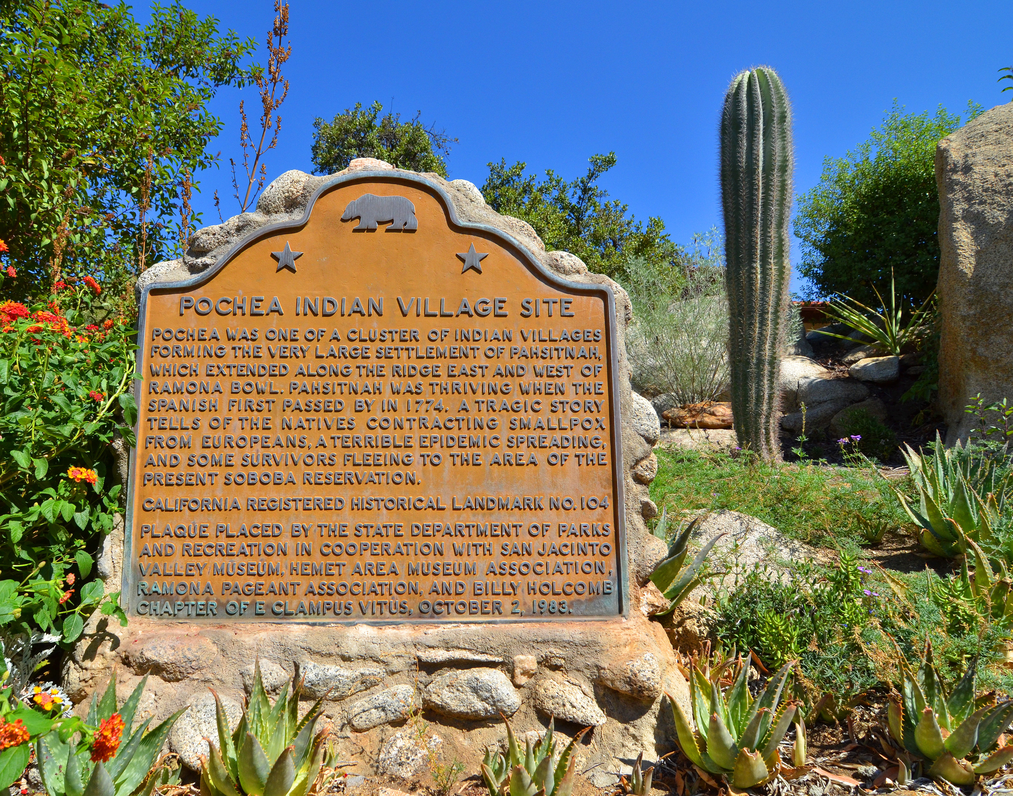 Historical marker at "SITE OF INDIAN VILLAGE OF POCHEA." At the Ramona Bowl, 27400 Ramona Bowl Road (S. Girard Street), Hemet, California. Pochea was one of a cluster of Luiseno Indian villages forming the very large settlement of Pahsitnah, which extended along the ridge east and west of Ramona Bowl. Pahsitnah was thriving when the Spanish first passed by in 1774. A tragic story tells of the natives contracting smallpox from Europeans, a terrible epidemic spreading, and some survivors fleeing to the area of the present Soboba Reservation, people known in the present day as the Soboba Band of Luiseno Indians.